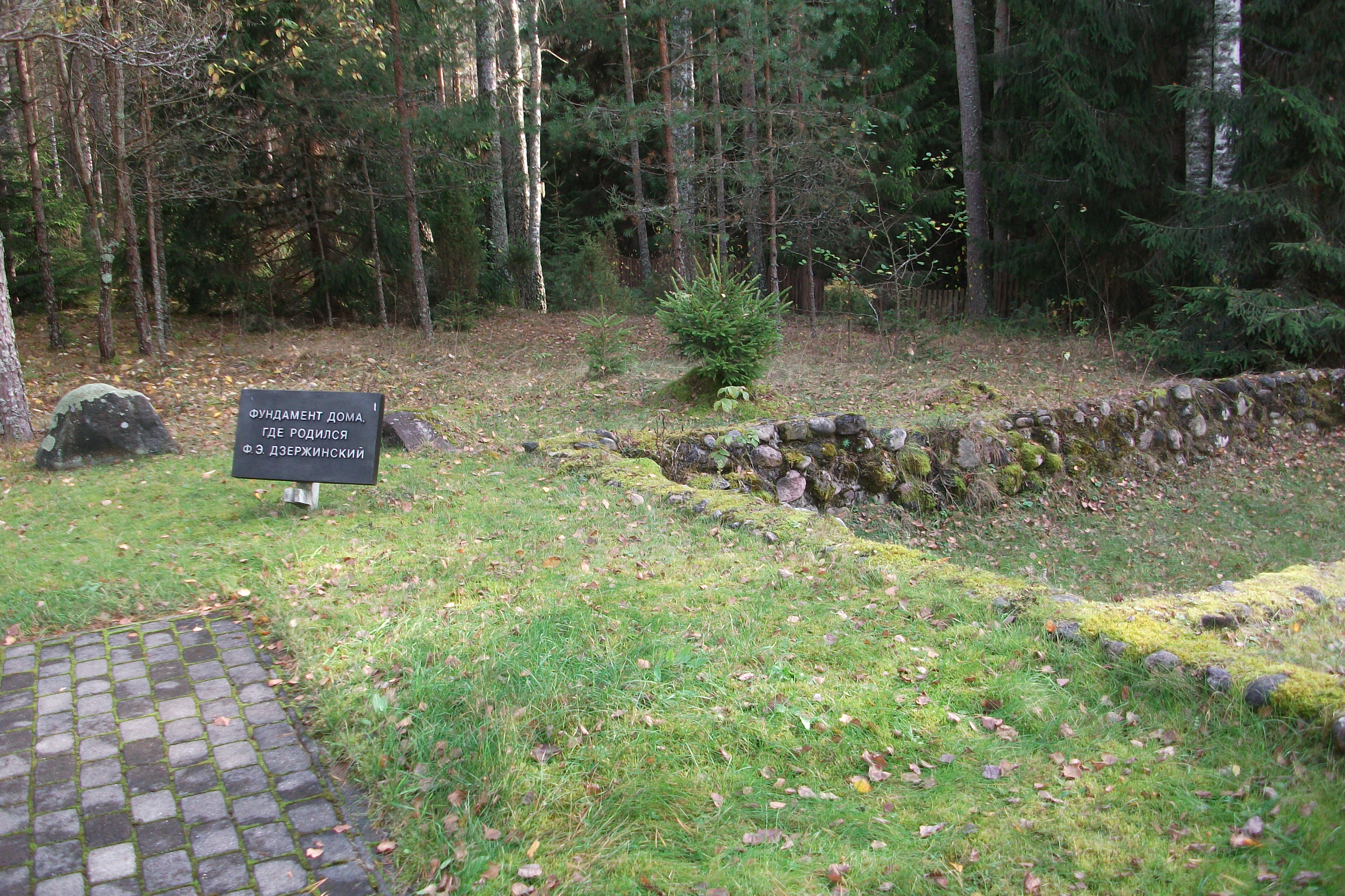 Groundwork of house in which Felix Dzyarzhynsky was born This is a photo of Belarusian heritage monument. Reference number: 613Д000612 ( WLM)